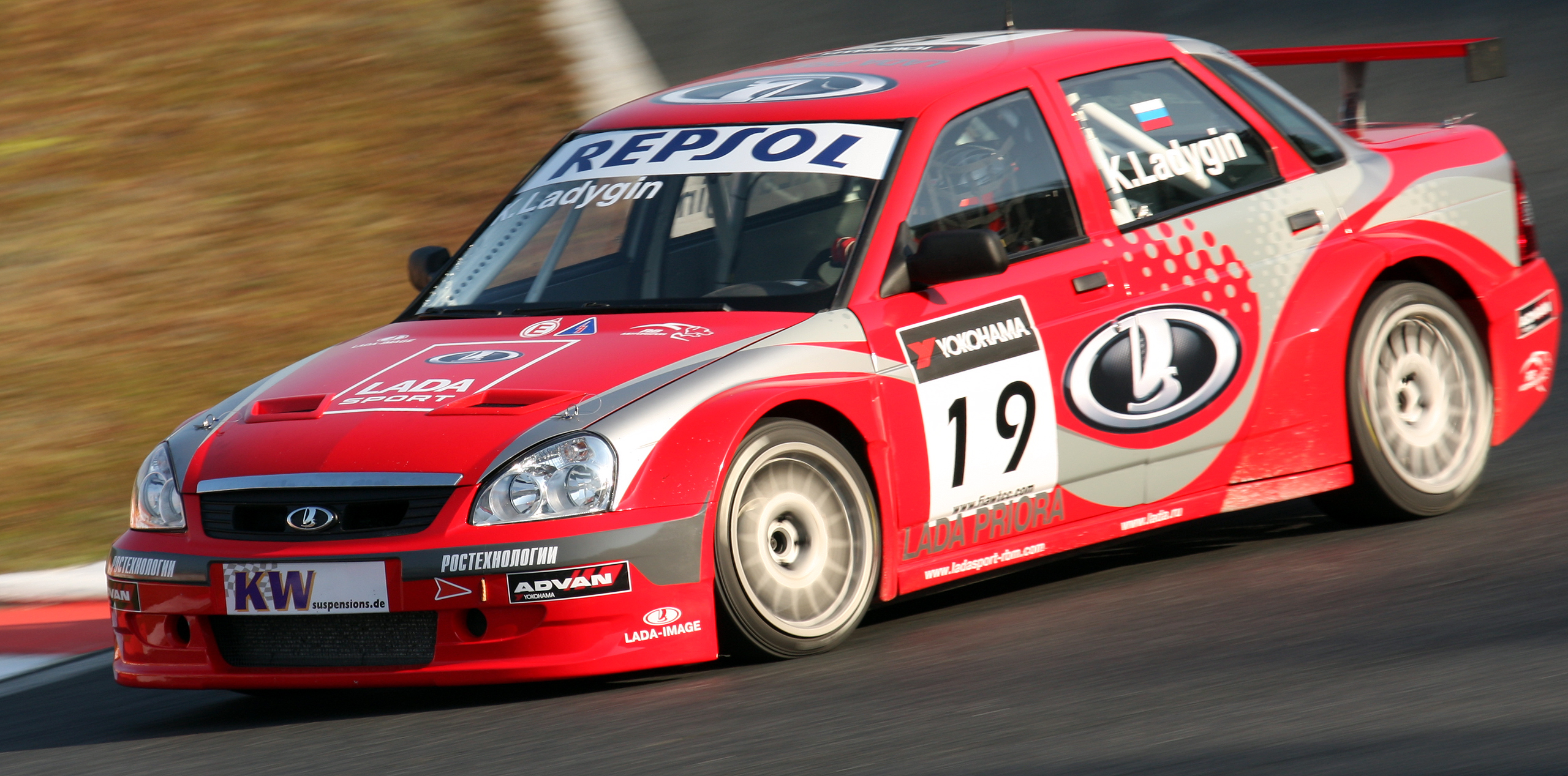 World Touring Car Championship 2009 Race of Japan: Kirill Ladygin (LADA Sport) at free practice.